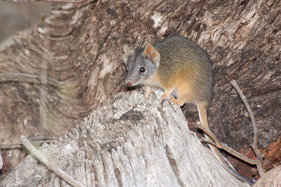 Muckleford Forest, Central Vic.